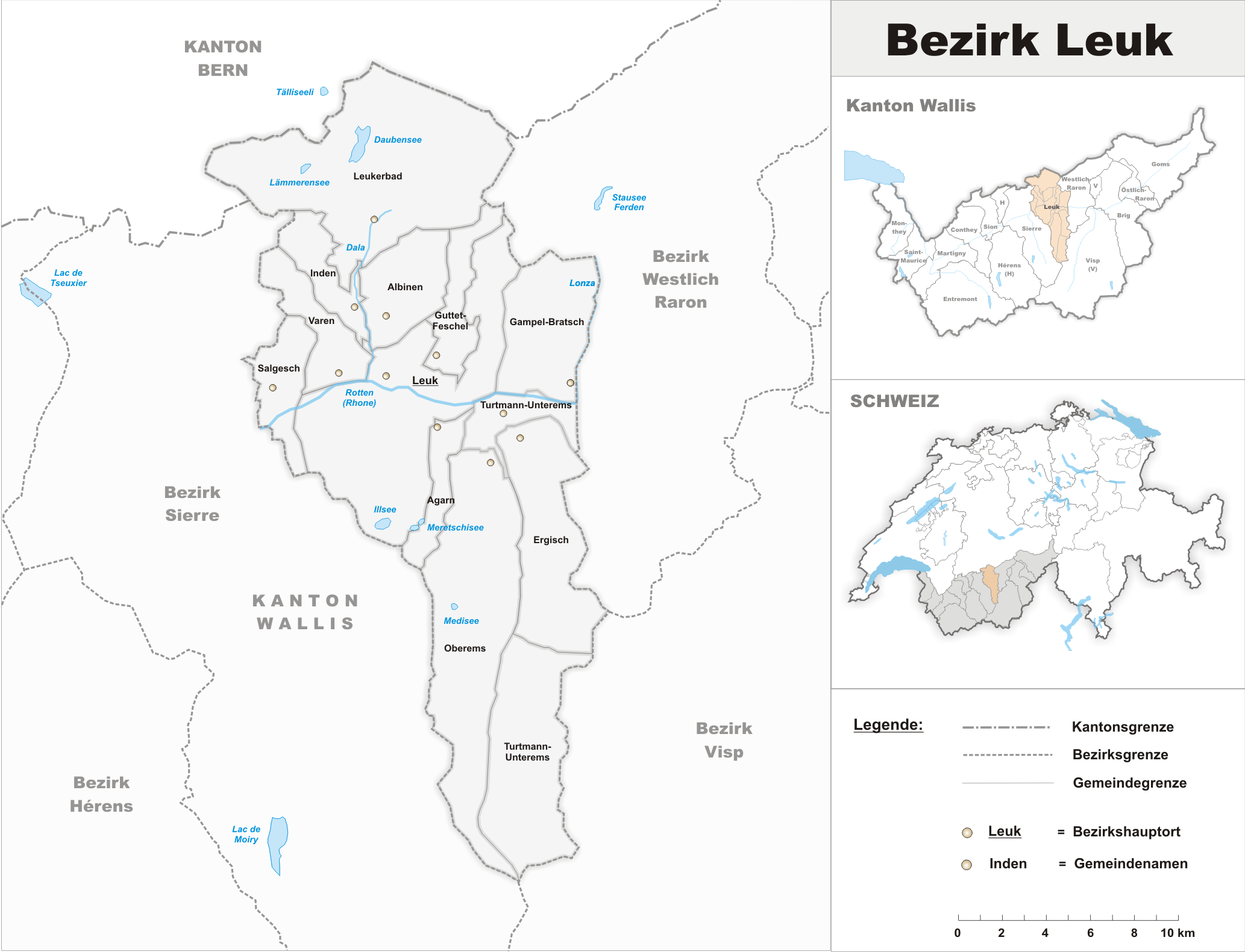 Municipalities in the district of Leuk